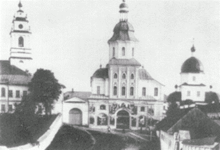 Sofroniev monastery